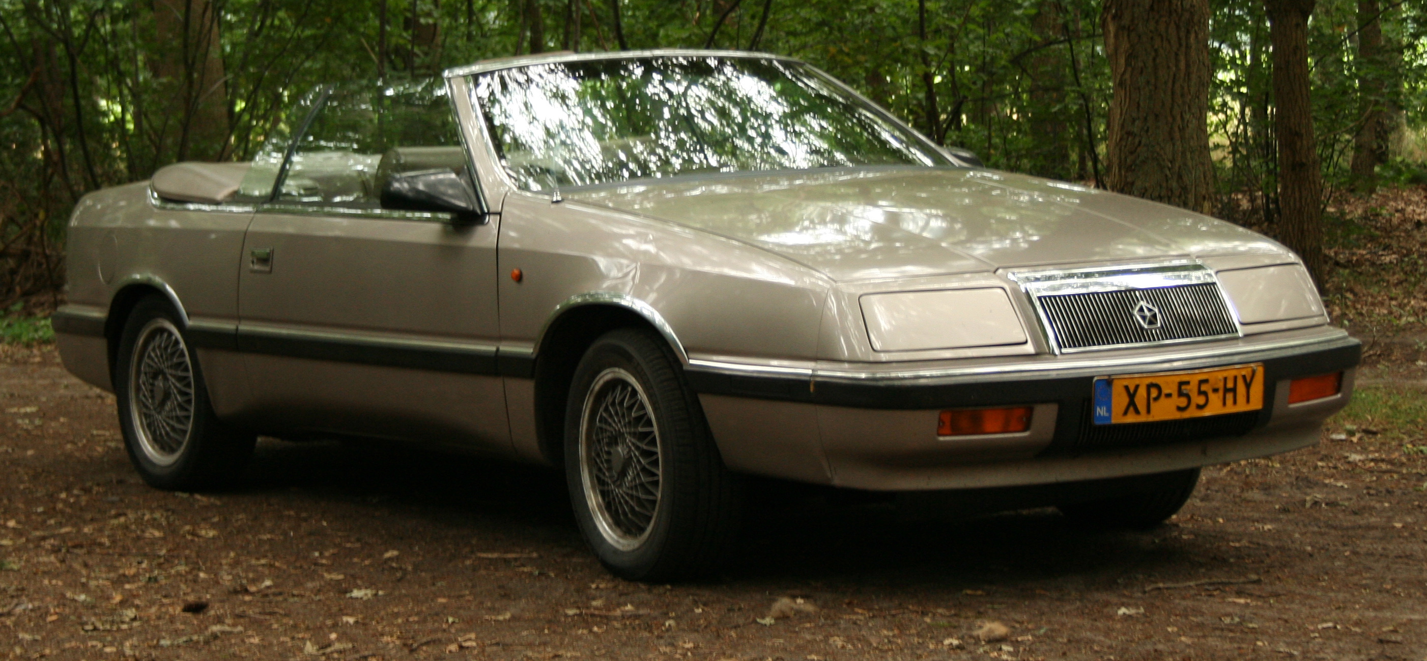 1989 LeBaron 2.5i Premium Convertible. 102hp, 16" lace wheels, color is Light Pewter.